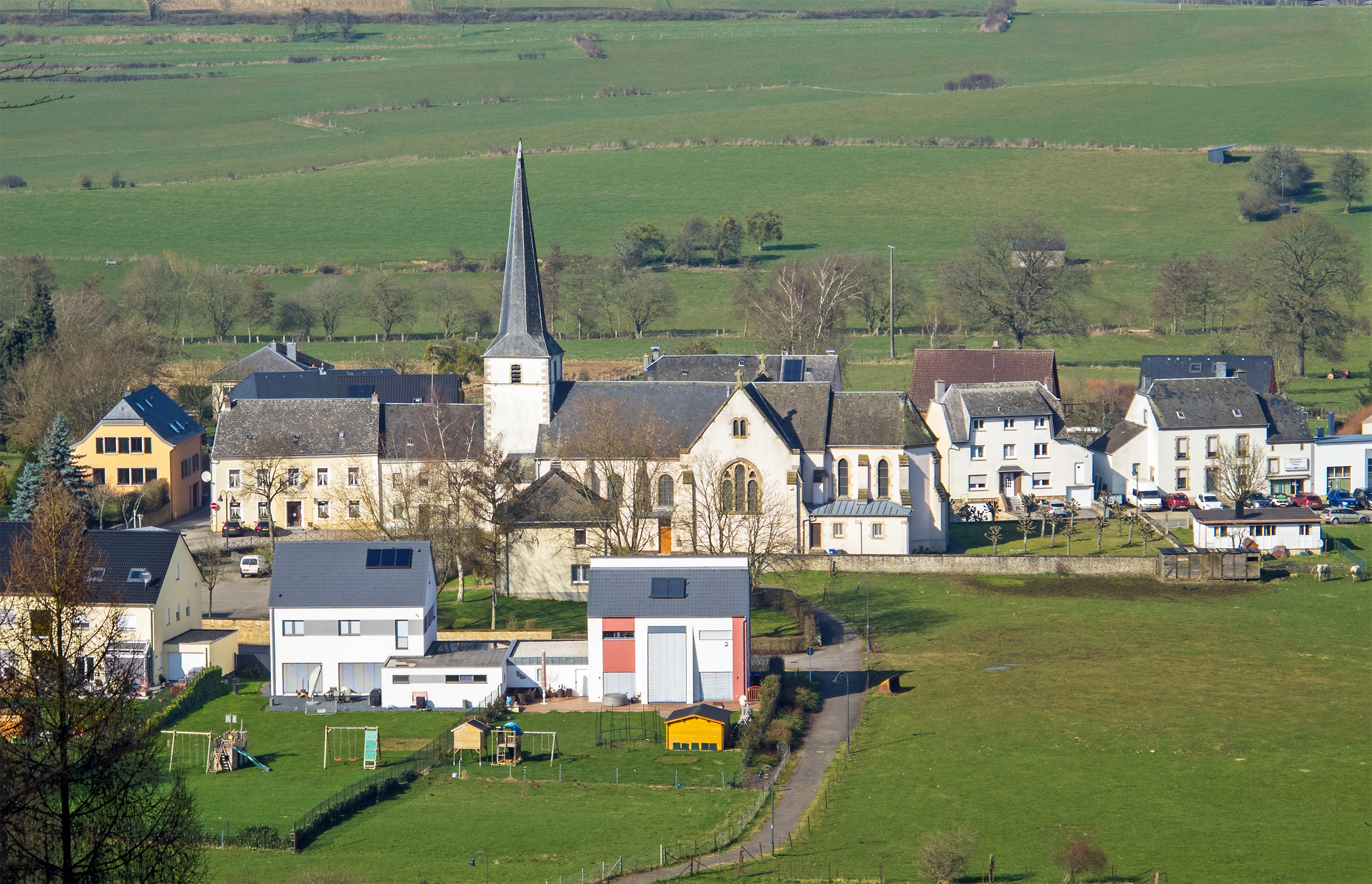 View on Beckerich from the Kahlenberg